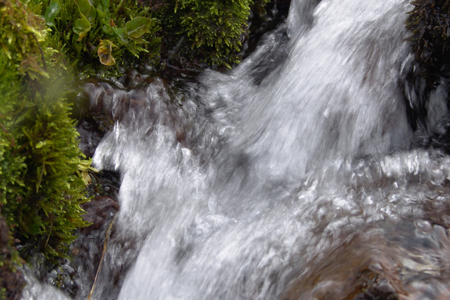 Gurgur Mineral spring from Sabalan Mountain. This mineral water is used in vata, the trade mark of Pak Ab Sabalan Co.